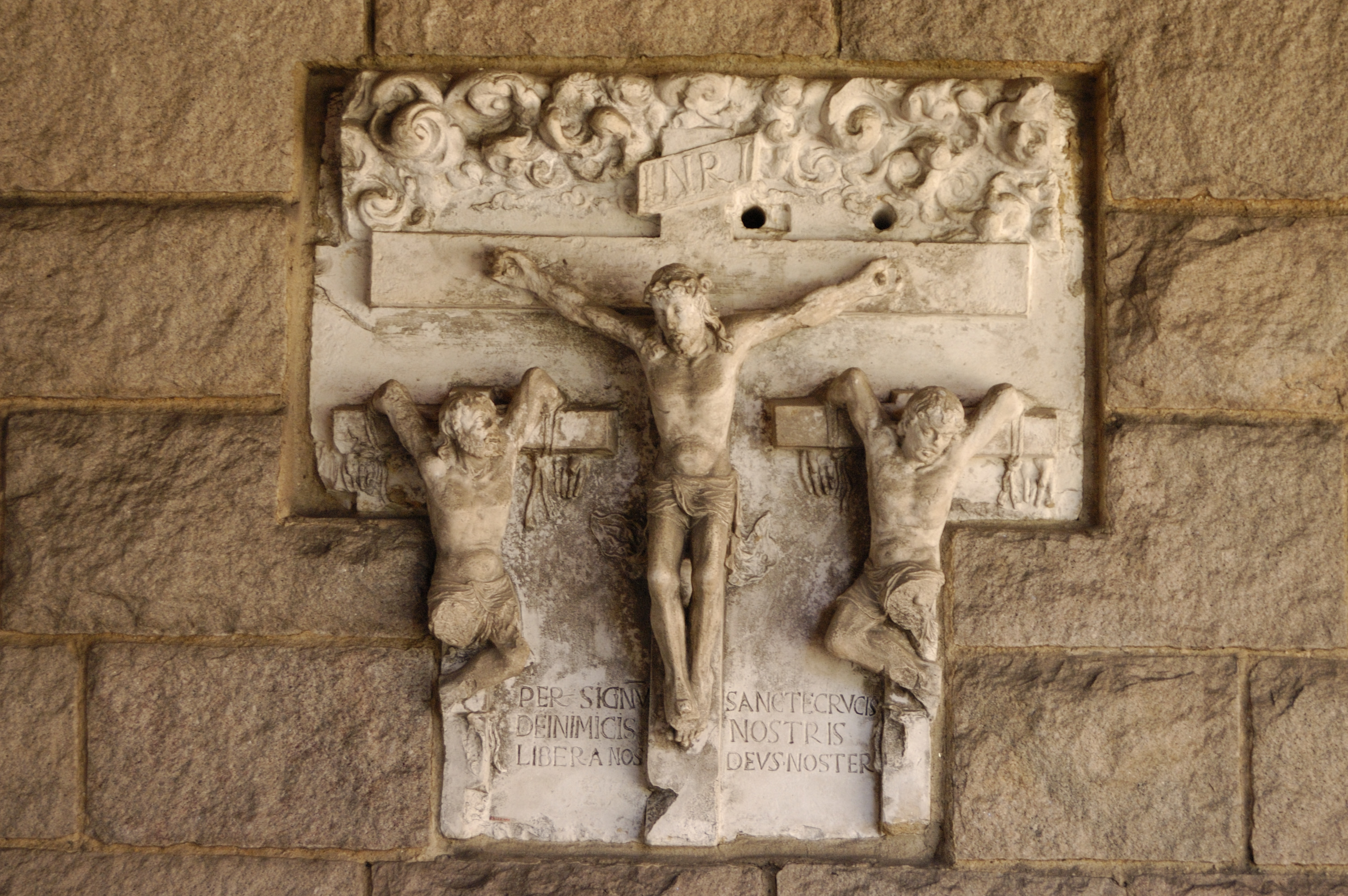 Crucifixion from the Stations of the Cross at The Cloisters in New York City. The inscription reads, "Through the Sign of the Holy Cross, from our enemies, deliver us, our God." Early 16th century, Made in Lorraine, France